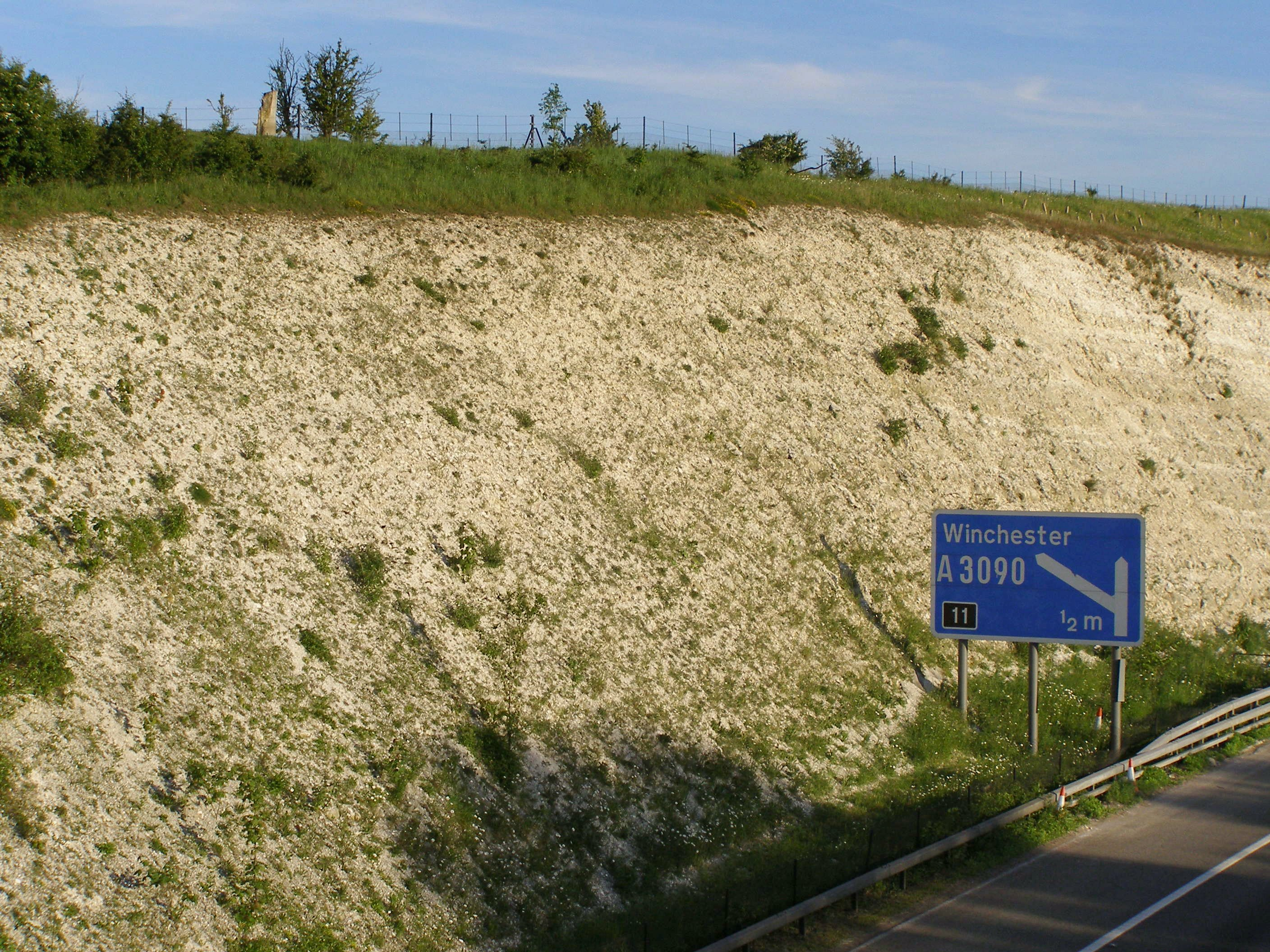 The side of the Tywford Down cutting illuminated by evening sun, near Winchester, England. Viewed from the footbridge. The monument is visible towards the left, behind the fence at the top of the cutting wall.